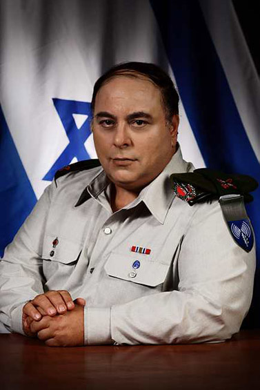 Tat-Aluf Avi Benayahu of IDF